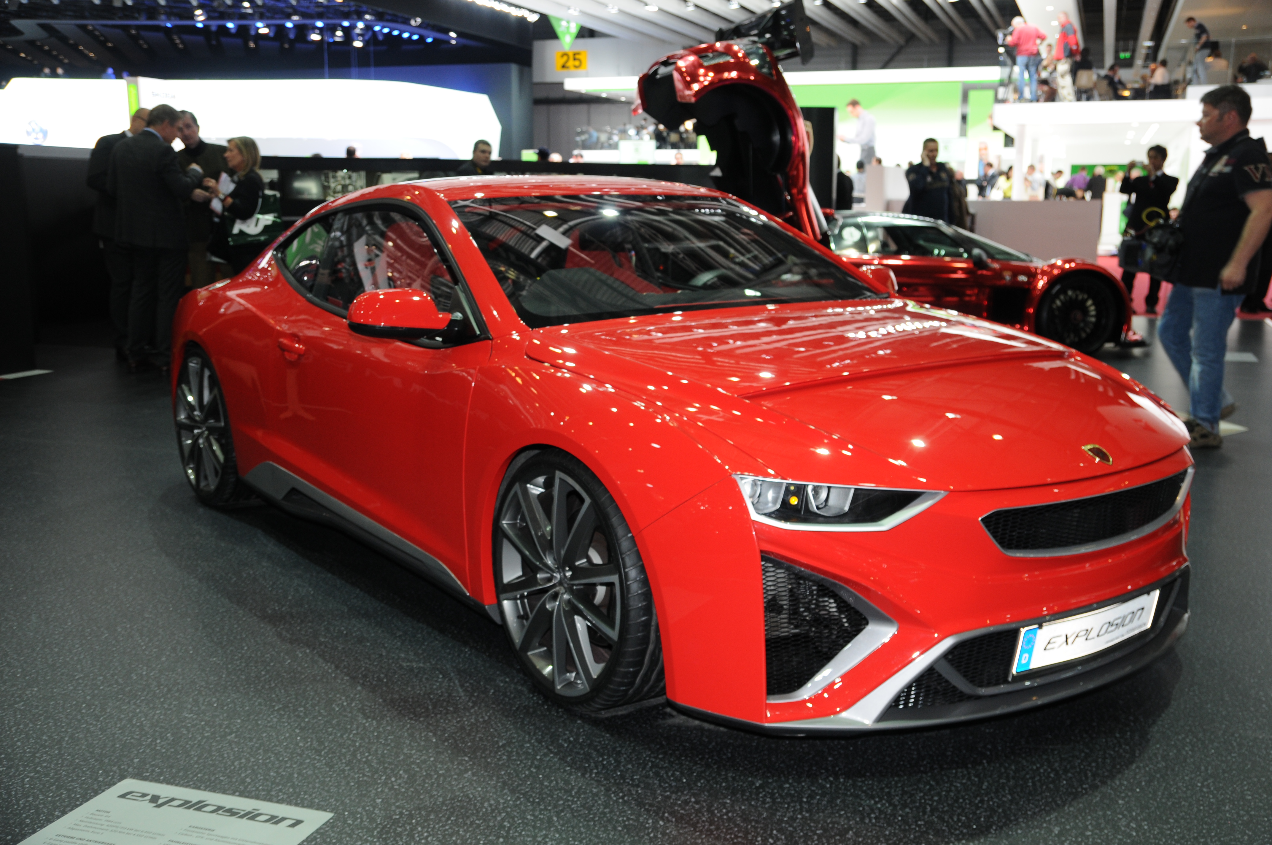 Geneva Motor Show 2014 (photo taken on the first press day)